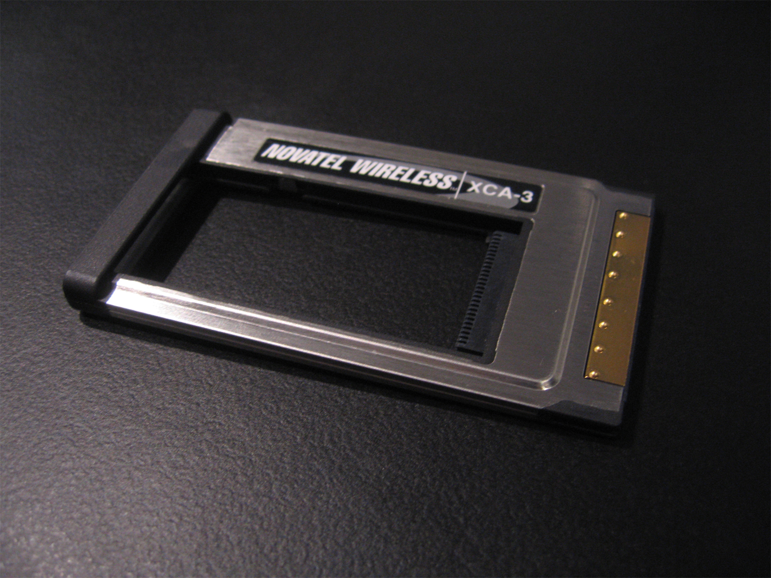 Information/Description = An PC Card adaptor for ExpressCard 34 Source = I took this myself Date = 27th August 2007 Author = Jason Ruck